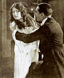 Still from the American film The Career of Katherine Bush (1919) with Catherine Calvert and an unidentified actor, on page 1497 of the August 16, 1919 Motion Picture News.